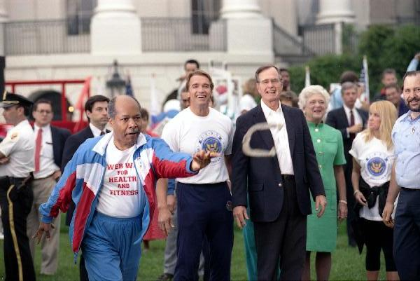 President and Mrs. Bush kick-off the Great American Workout Month with Arnold Schwarzenegger and Secretary Louis Sullivan.